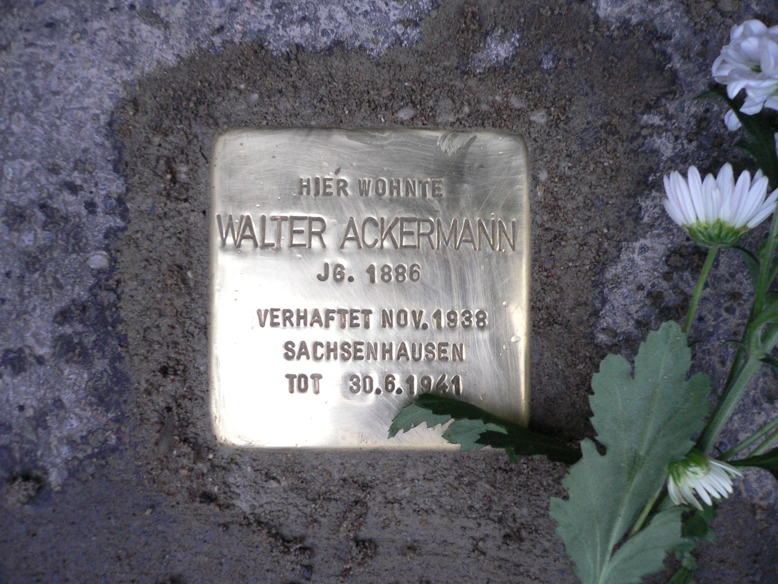 Memorial "Stolperstein" for Walter Ackermann, a homosexual victim of the Nazis. It is located at the street address An der Strangriede 2 in the city Hanover. The text reads: "Here lived Walter Ackermann, born 1886. Arrested November 1938. Sachsenhausen Concentration Camp. Dead on 30 June 1941."